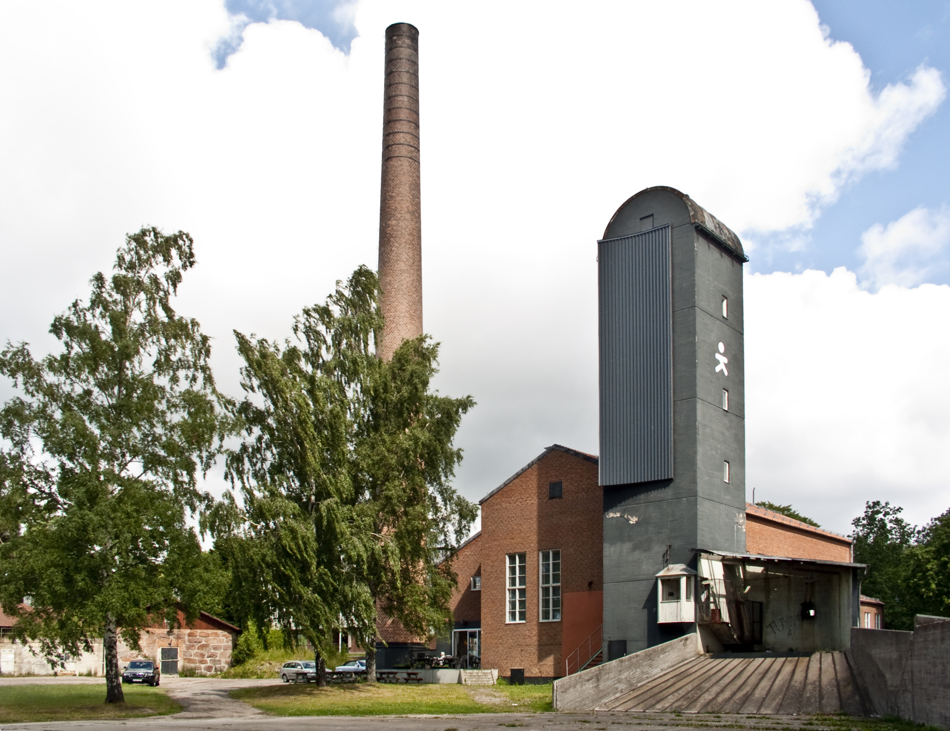 Kristinehamns konstmuseum (The Art museum in Kristinehamn), Kristinehamn, Sweden.